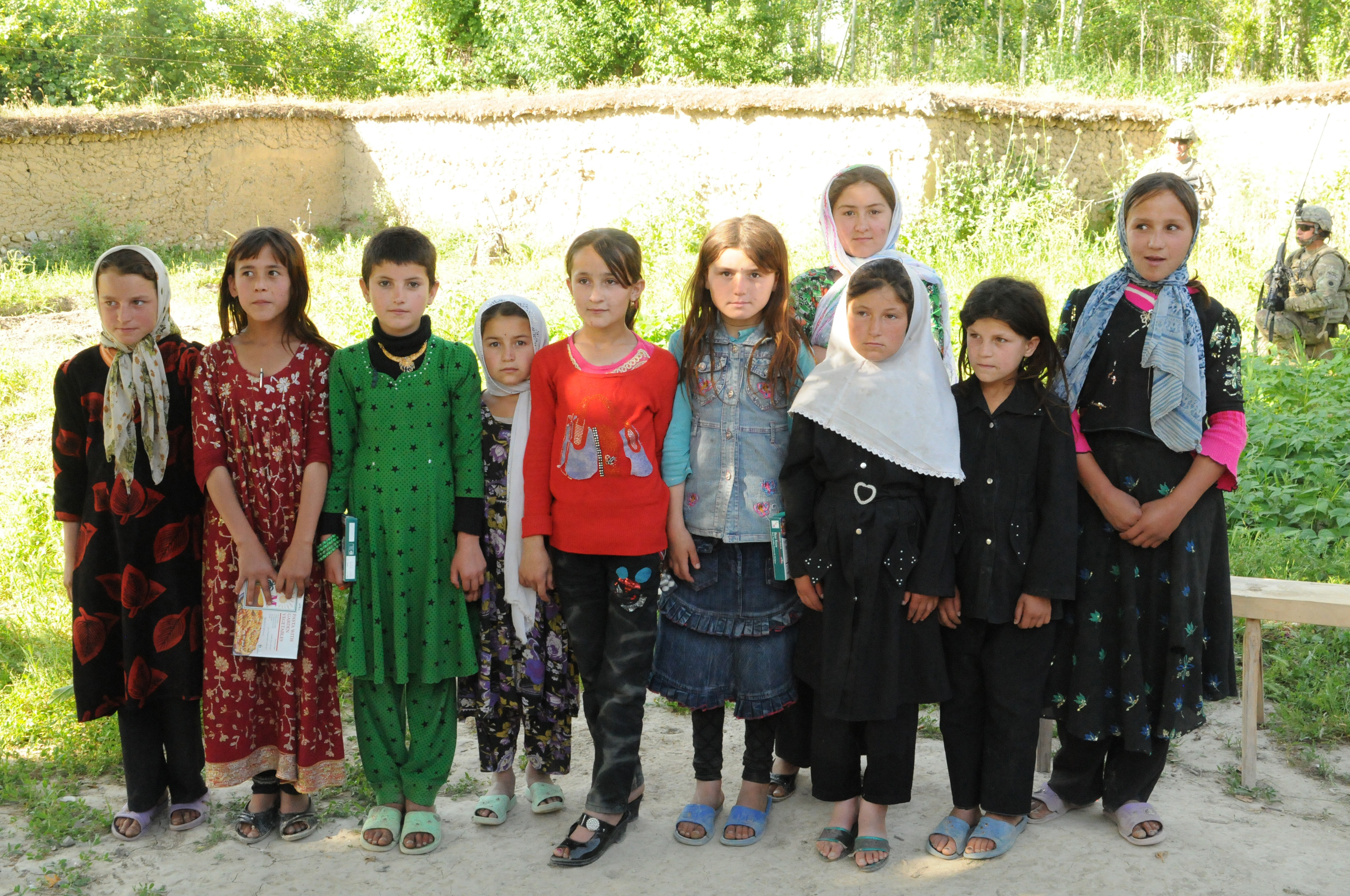 Young Afghan girls gather at the medical facility in Khwahan, Badakhshan Province, Afghanistan, June 3, 2012. The 5th Zone Security Force Assistance Team assigned to the 37th Infantry Brigade Combat Team mentored a medical civic action program in the village. (37th IBCT photo by Sgt. Kimberly Lamb) (Released)